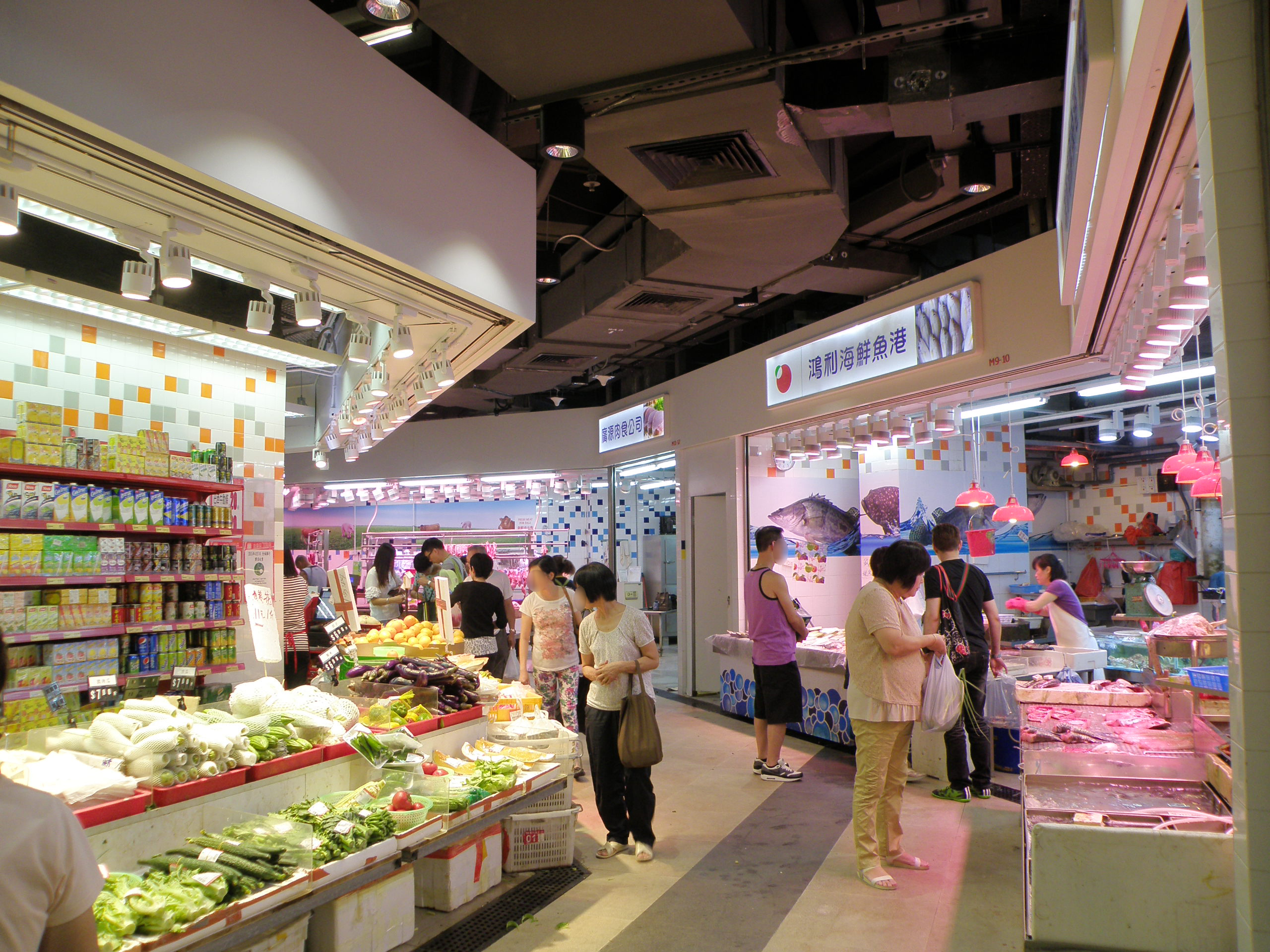 Belvedere (Allmart) Chinese Market in Tsuen Wan West, Hong Kong.